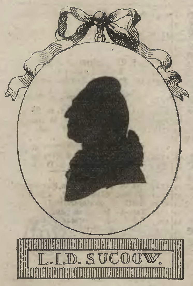 Lorenz Johann Daniel Suckow (1722-1801)